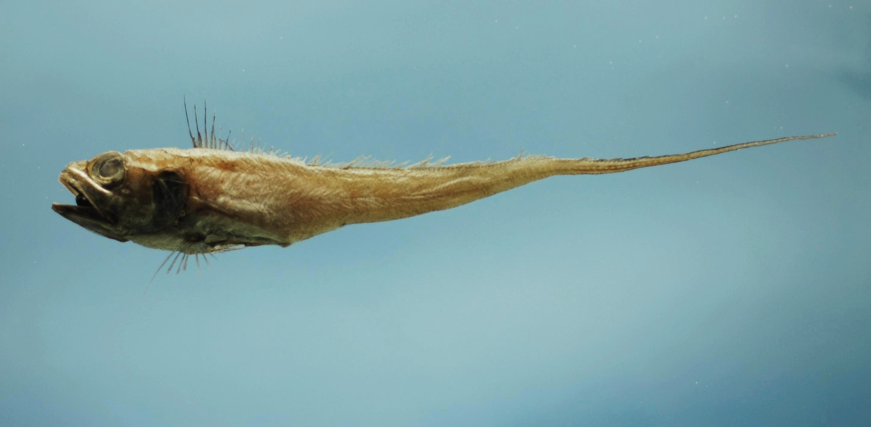 Vaillant's grenadier ( Bathygadus melanobranchus). Gulf of Mexico.